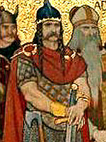 Detail from a frieze in the Scottish National Portrait Gallery, Queen Street, Edinburgh